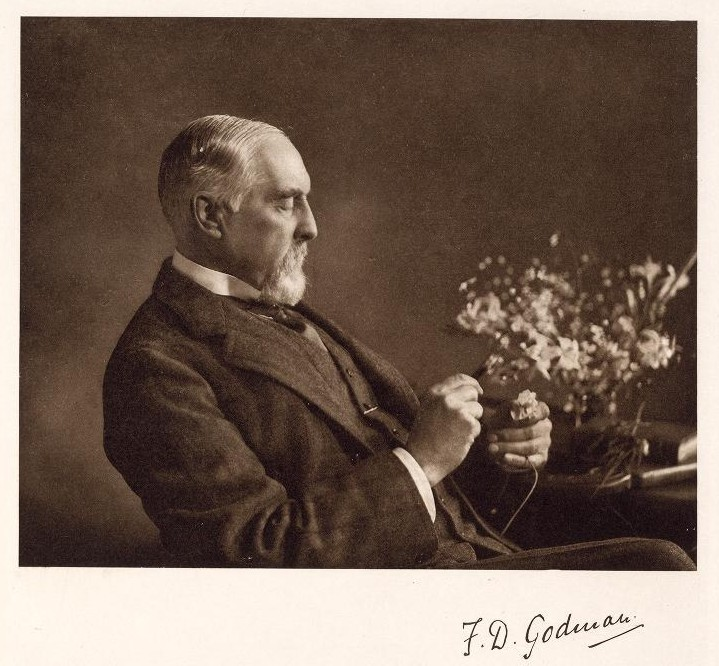 Frederick DuCane Godman (1834-1919)